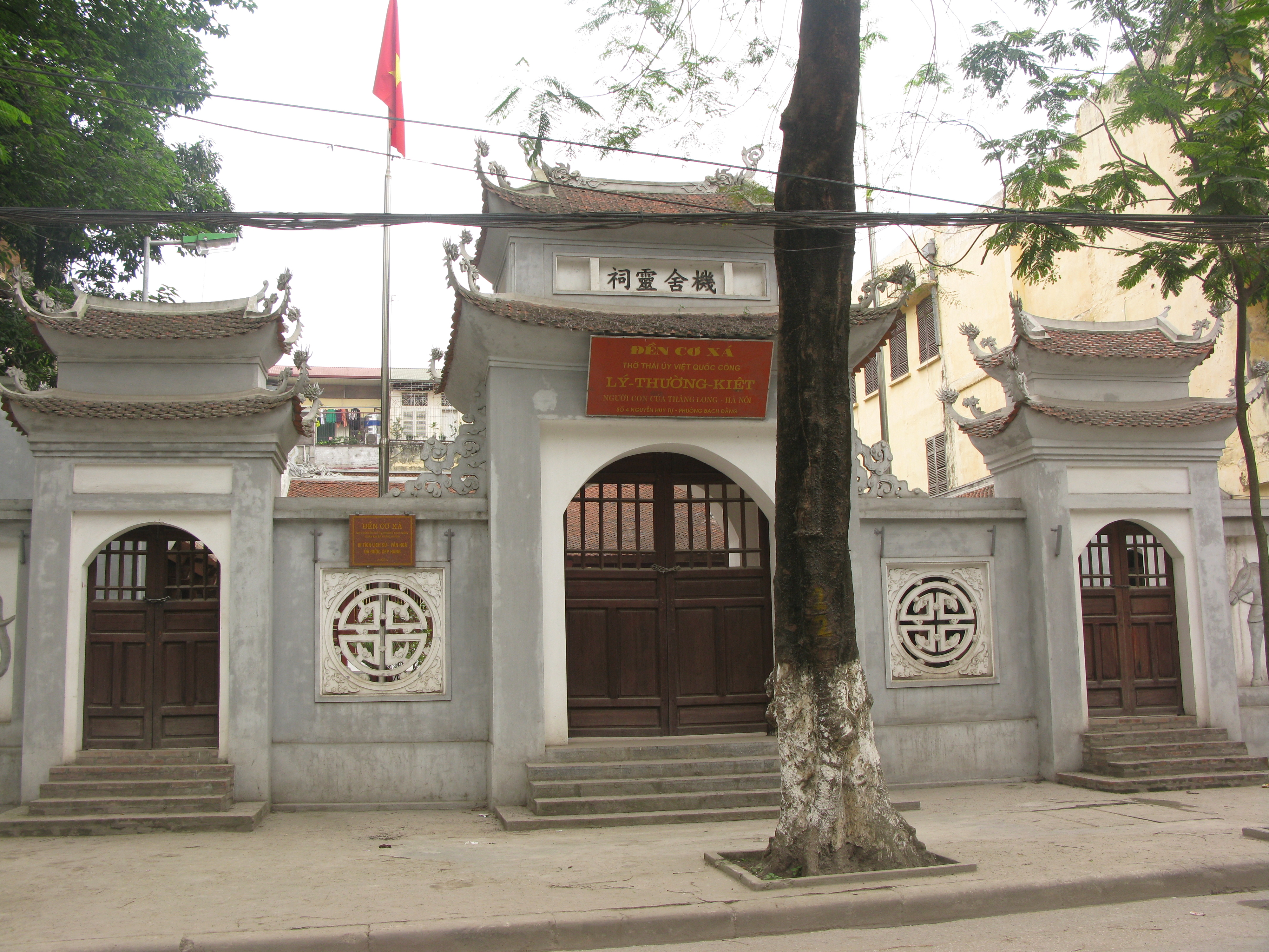 Cơ Xá Shrine in Hanoi to to worship Lý Thường Kiệt